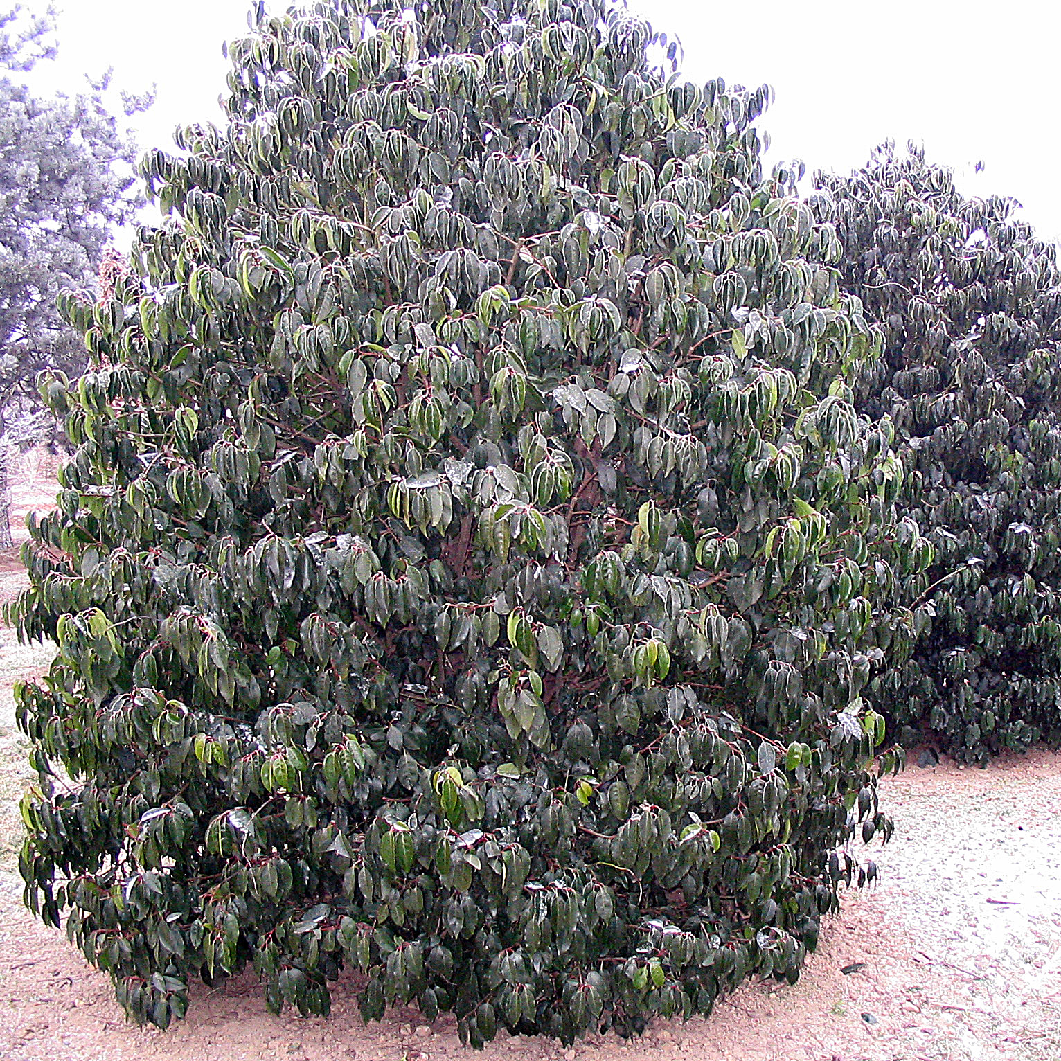 Prunus lusitanica L., Lappen nursery 3.2.2006.